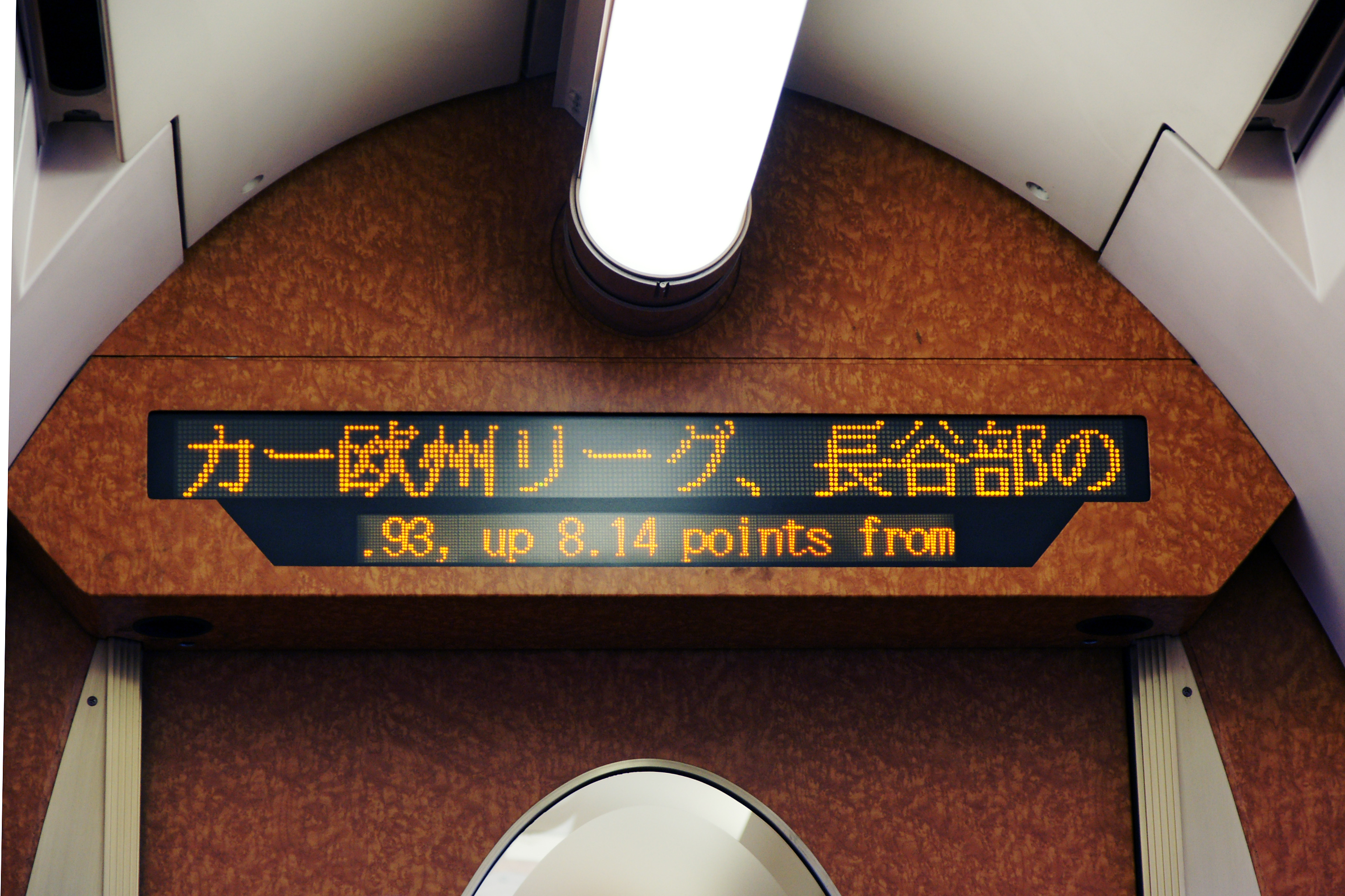 Nankai Electric Railway type 50000 for Rapi:t